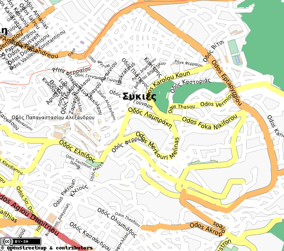 Showing part of the municipality of Sykies This map may be incomplete, and may contain errors. Don't rely solely on it for navigation.